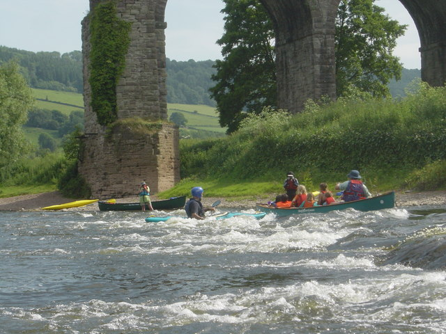 Wye rapid between bridges There were two railway bridges over the Wye downstream from Monmouth, just below the confluence with the River Monnow (Afon Mynwy) which gives Monmouth its name. The second bridge, seen here, has now had the spans over the river dismantled, though it is still shown on maps. Between the viaducts is this short rapid with play potential. The kayaker is busy surfing the wave, whilst the Canadian with two adults and no less than four children is making its third descent of the bouncy waves river right, the beach beyond providing a convenient upstream portage for repeat descents. There aren't many rapids on this section of river, especially in low summer flows, so it's worth making the most of any you do come across !